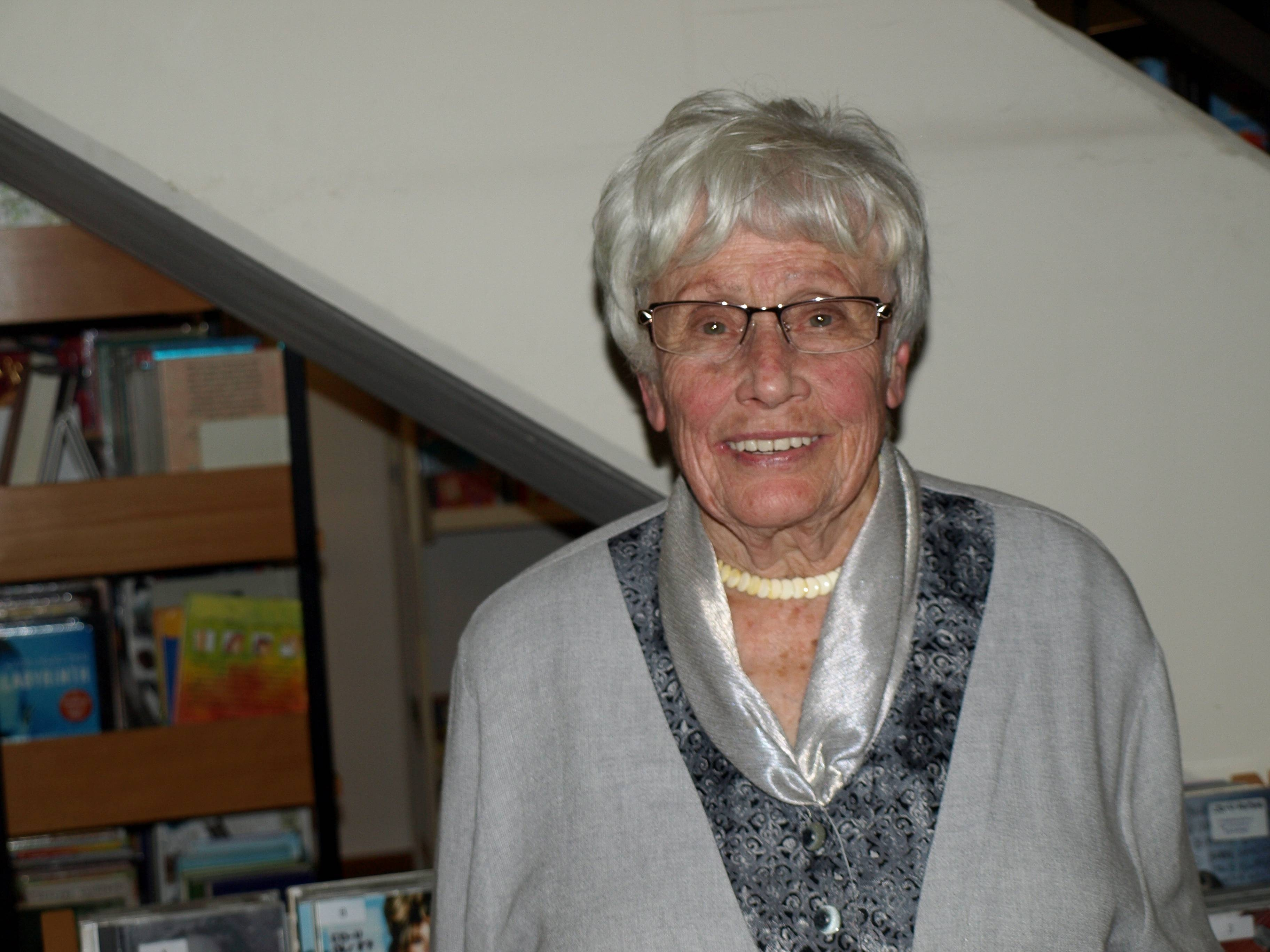 Ursula Vaupel 2013